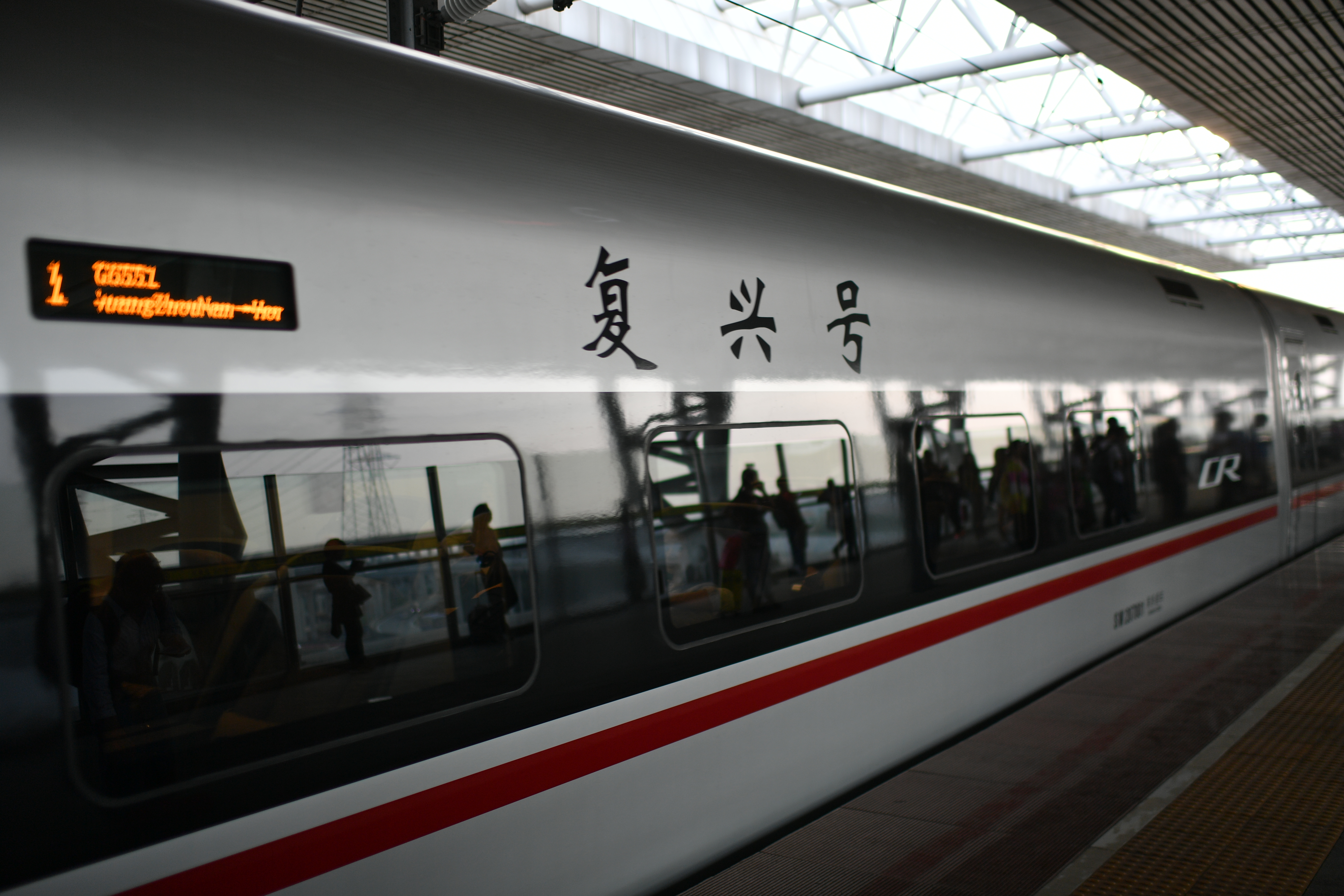 "Fuxing" Sign on CR400AF Capture in Qingsheng Station